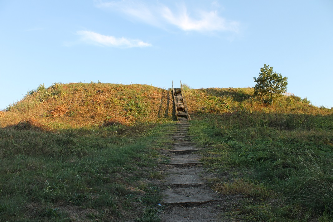 Paveisininkai Hillfort, Lazdijai district, Lithuania